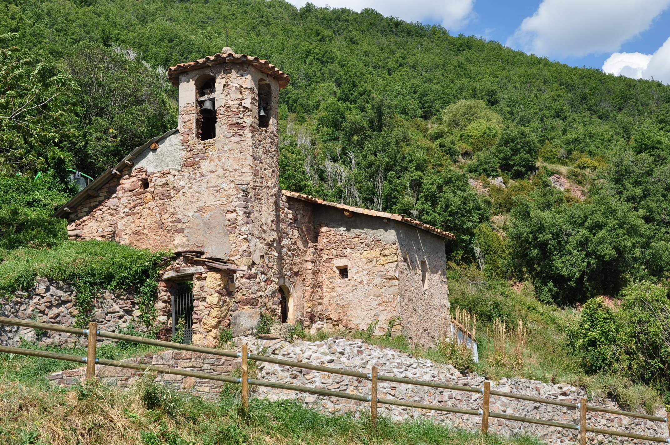 St. Stephen's church in the village of Igüerri in the Pyrenees (municipality El Pont de Suert, district of Alta Ribagorça, Catalonia, Spain).